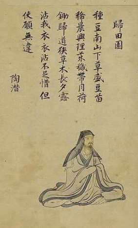 Eastern Jin and Liu Song dynasties poet Tao Yuanming (365?-427).